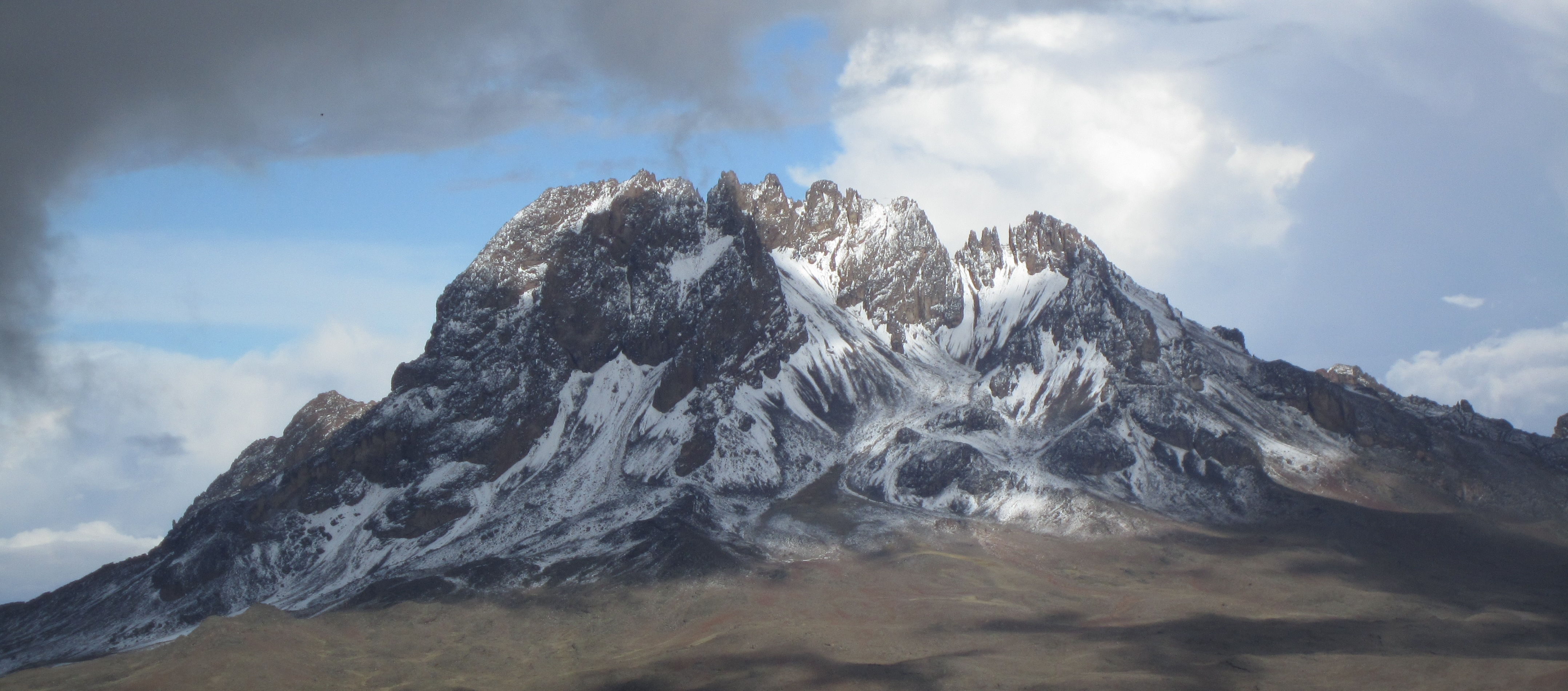 Mawenzi summit of Kilimanjaro